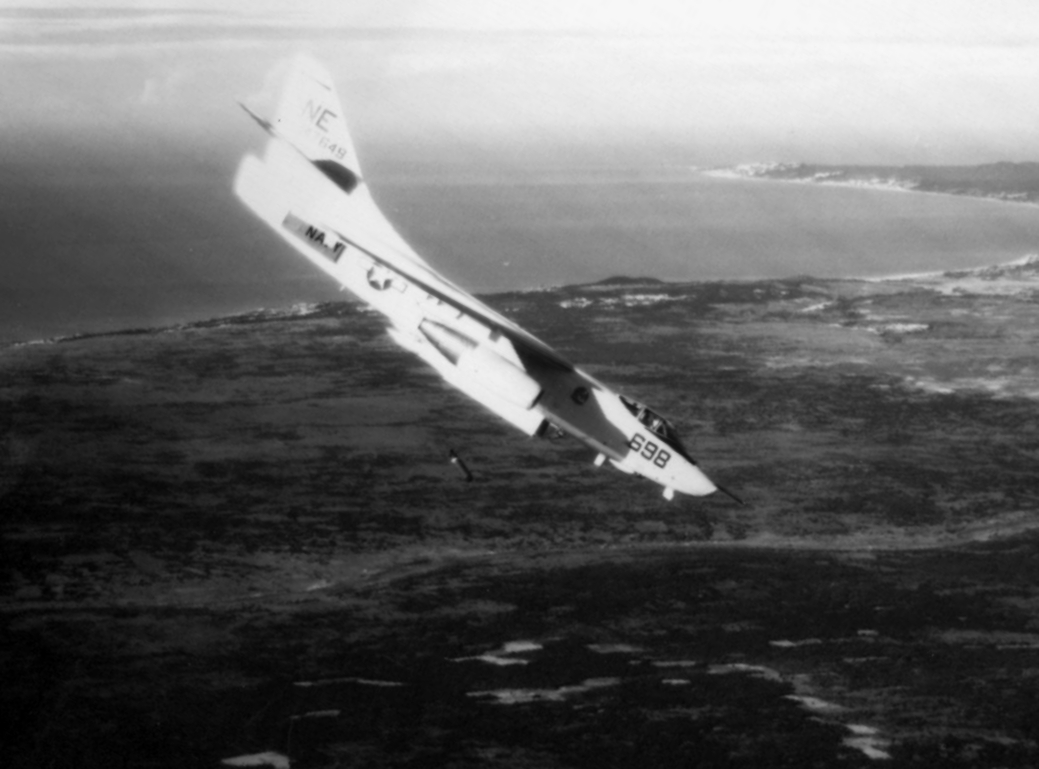 A U.S. Navy Douglas A-3B Skywarrior (BuNo 147642) from Heavy Attack Squadron VAH-8 Fireballers dropping a bomb over North Vietnam. VAH-8 was assigned to Attack Carrier Air Wing 2 (CVW-2) aboard the aircraft carrier USS Midway (CVA-41) for a deployment to Vietnam from 6 March to 23 November 1965.